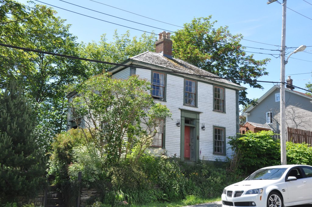 Goodland House, Harbour Grace, Newfoundland.